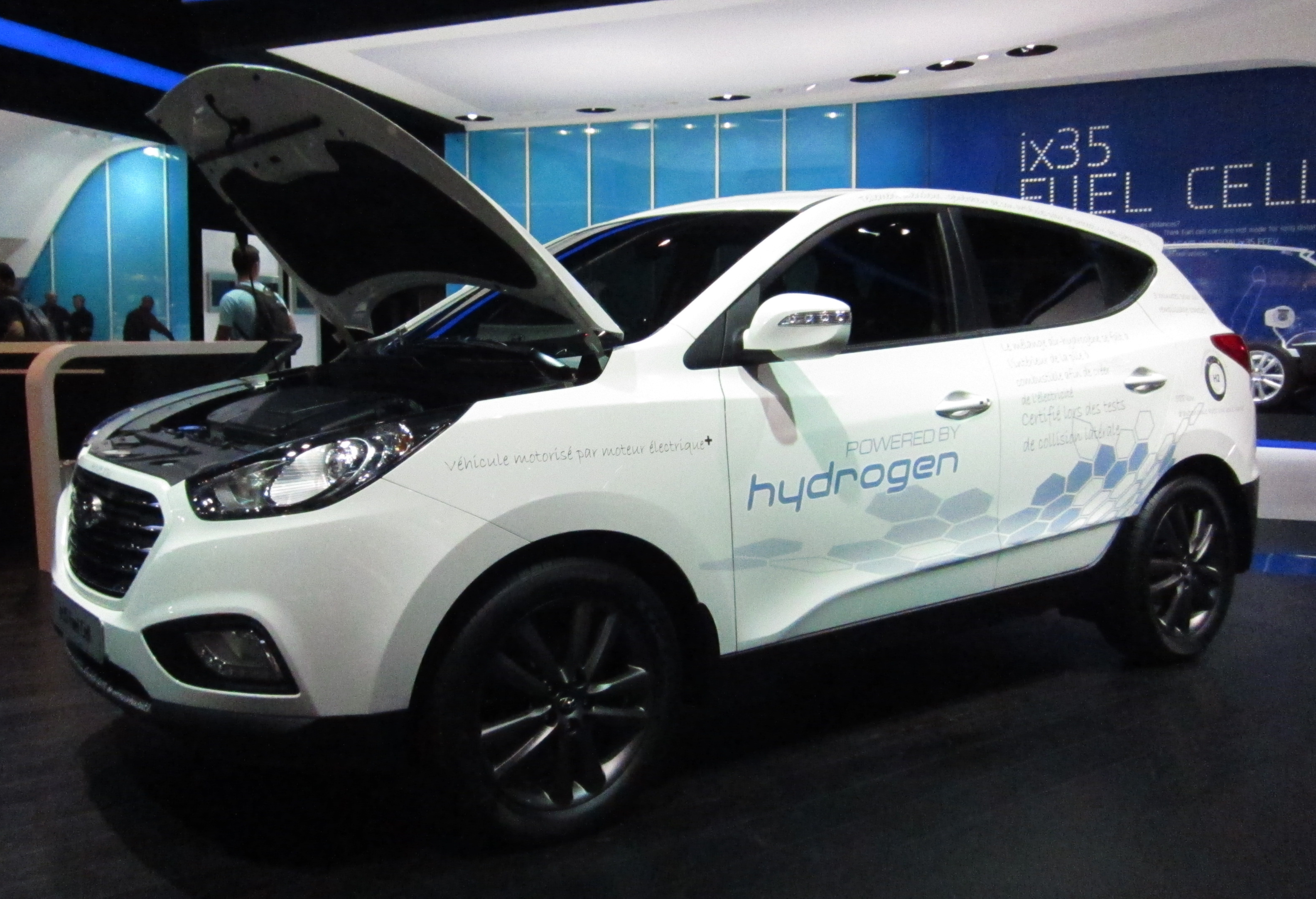 Hyundai ix35 Fuel Cell at Mondial de l'Automobile Paris 2012